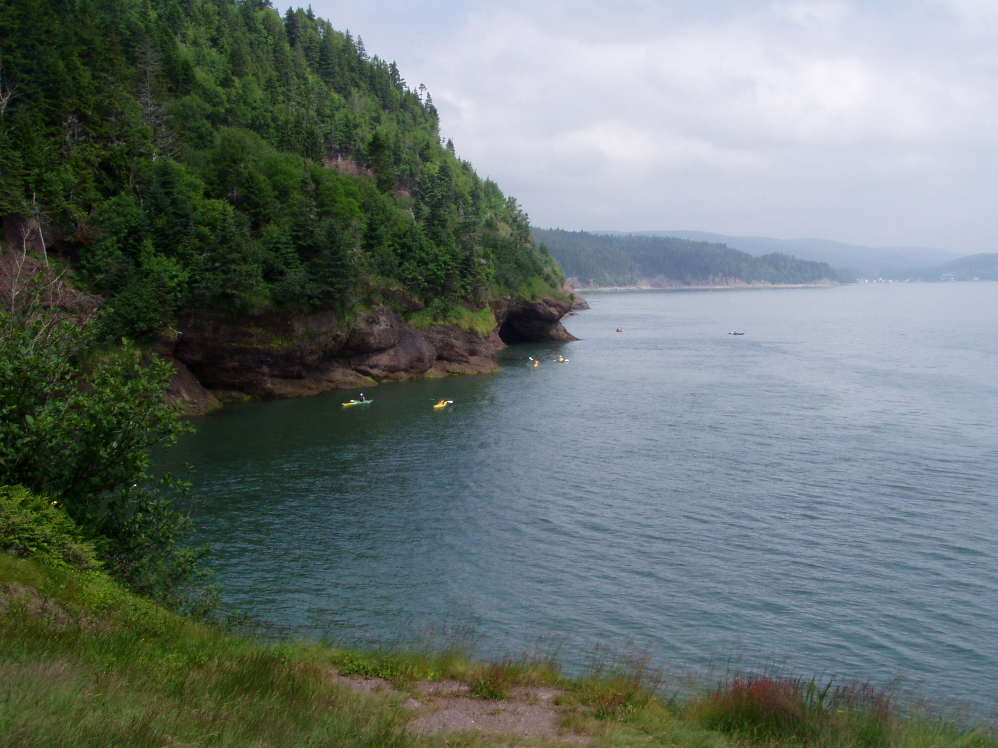 Matthews Head, Fundy National Park of Canada, New Brunswick. Photo taken in July 2004 by myself, Danielle Langlois.